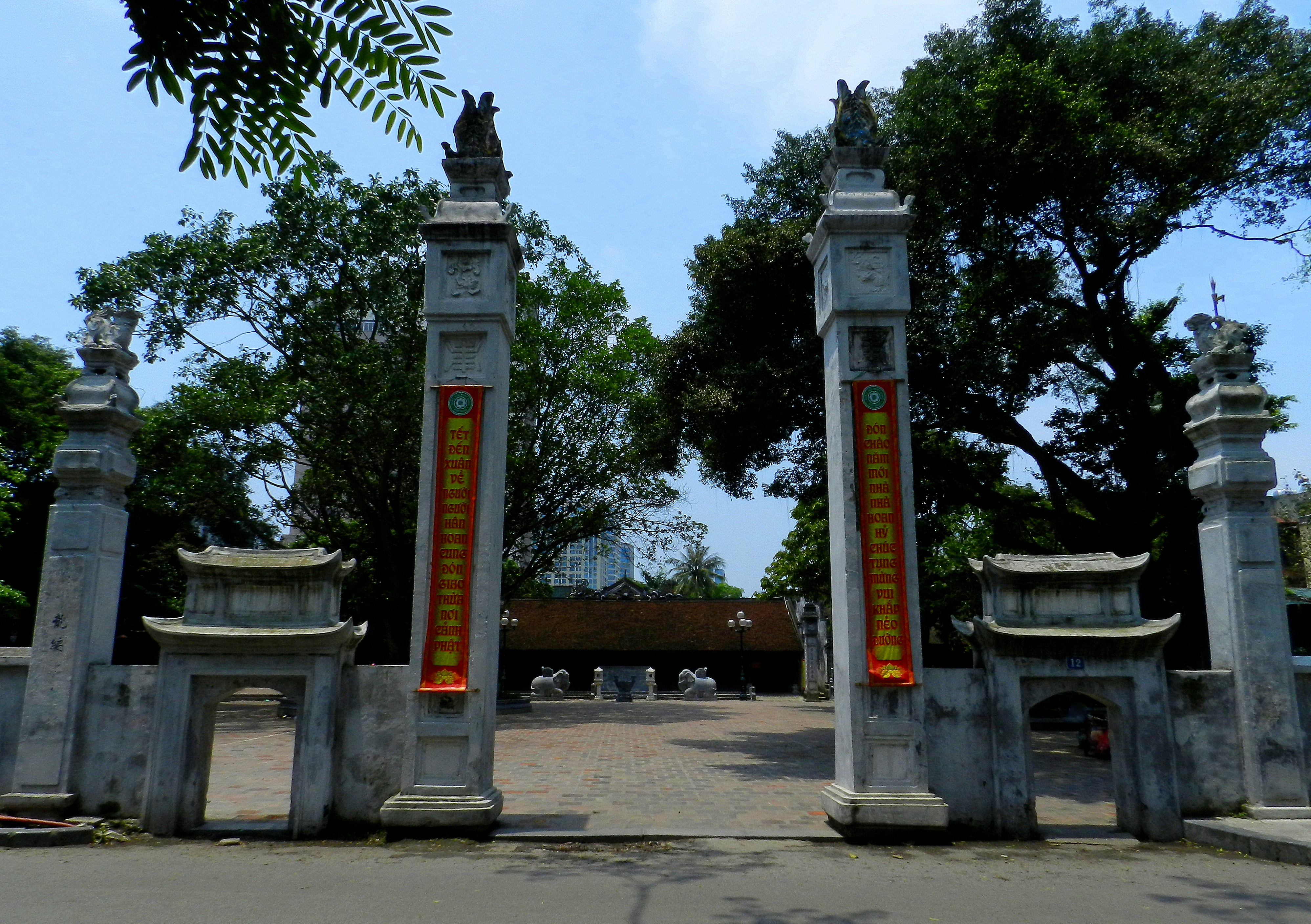 Hai Bà Trưng Temple in Hanoi, Vietnam